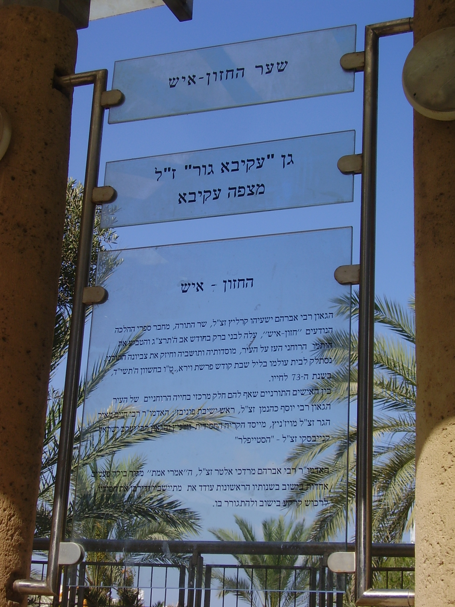 hazon ush gate in akiva gur garden, bnei brak, israel שער החזון איש בגן עקיבא גור בבני ברק